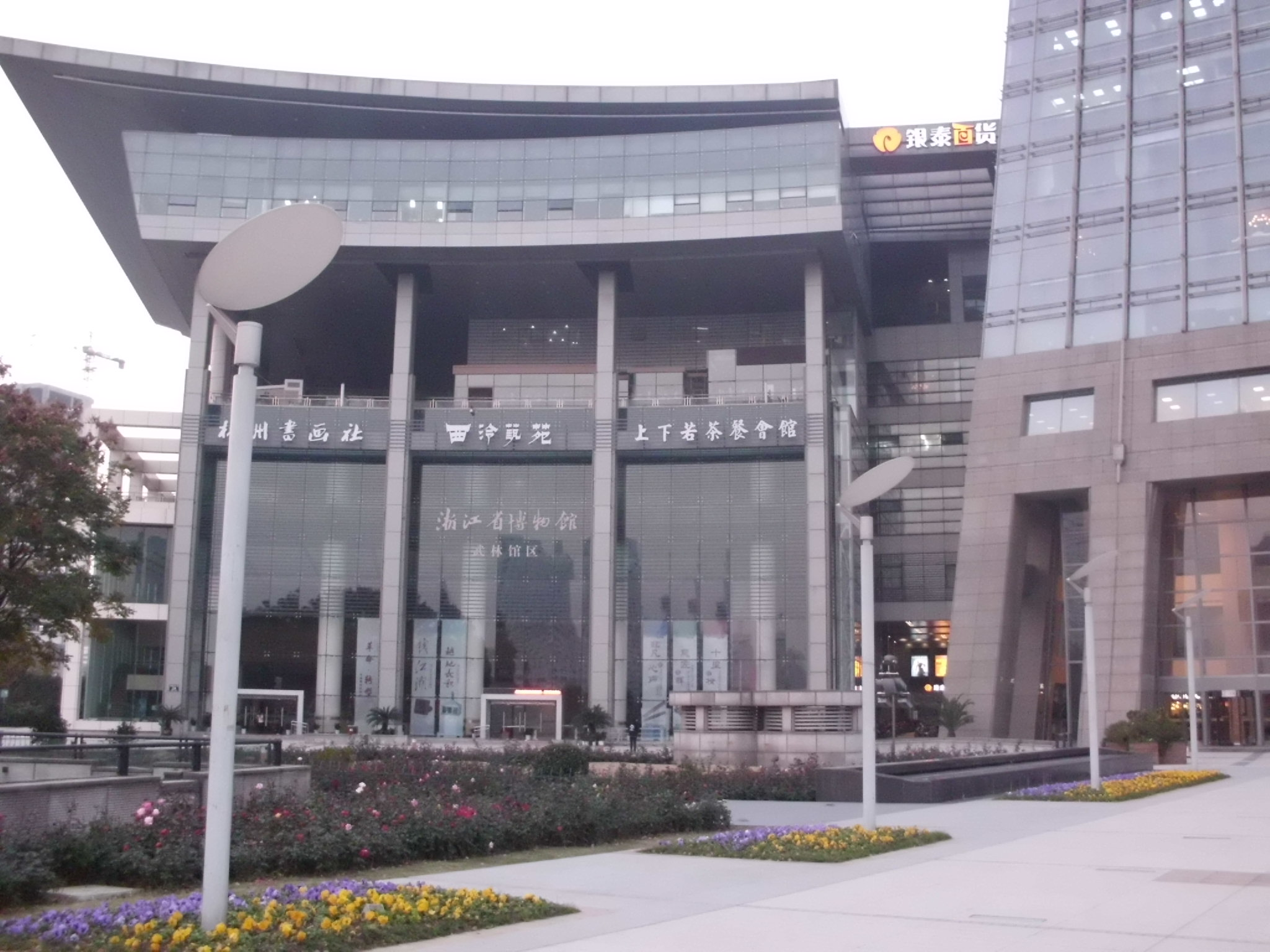 Westlake Cultural Square